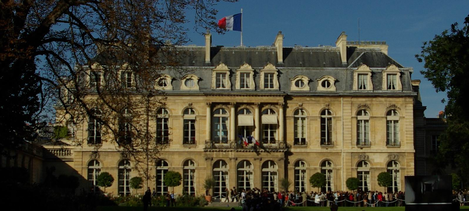 Élysée Palace